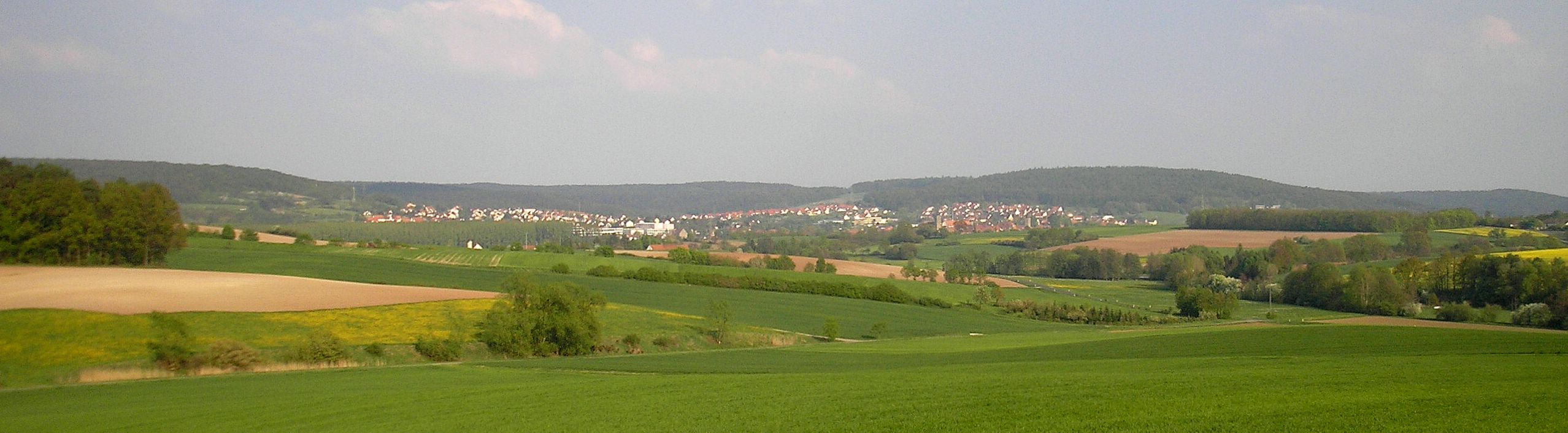 Ebern (Landkreis Haßberge, Lower Franconia, Bavaria, Germany). Total view from the west (Unterpreppach)